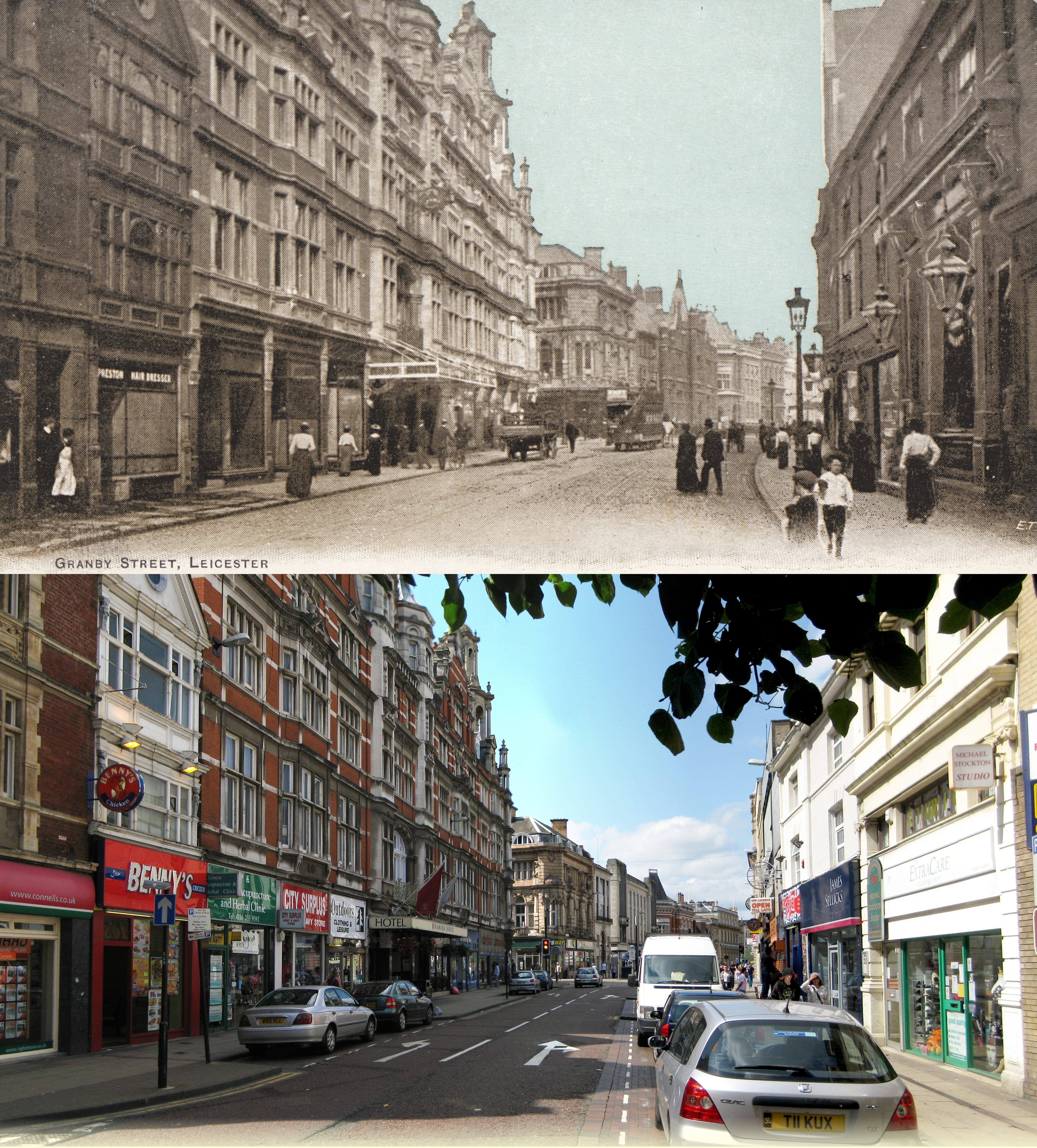 Comparison of Granby Street, Leicester, in or before 1903 and in August 2009. This is called Rephotography